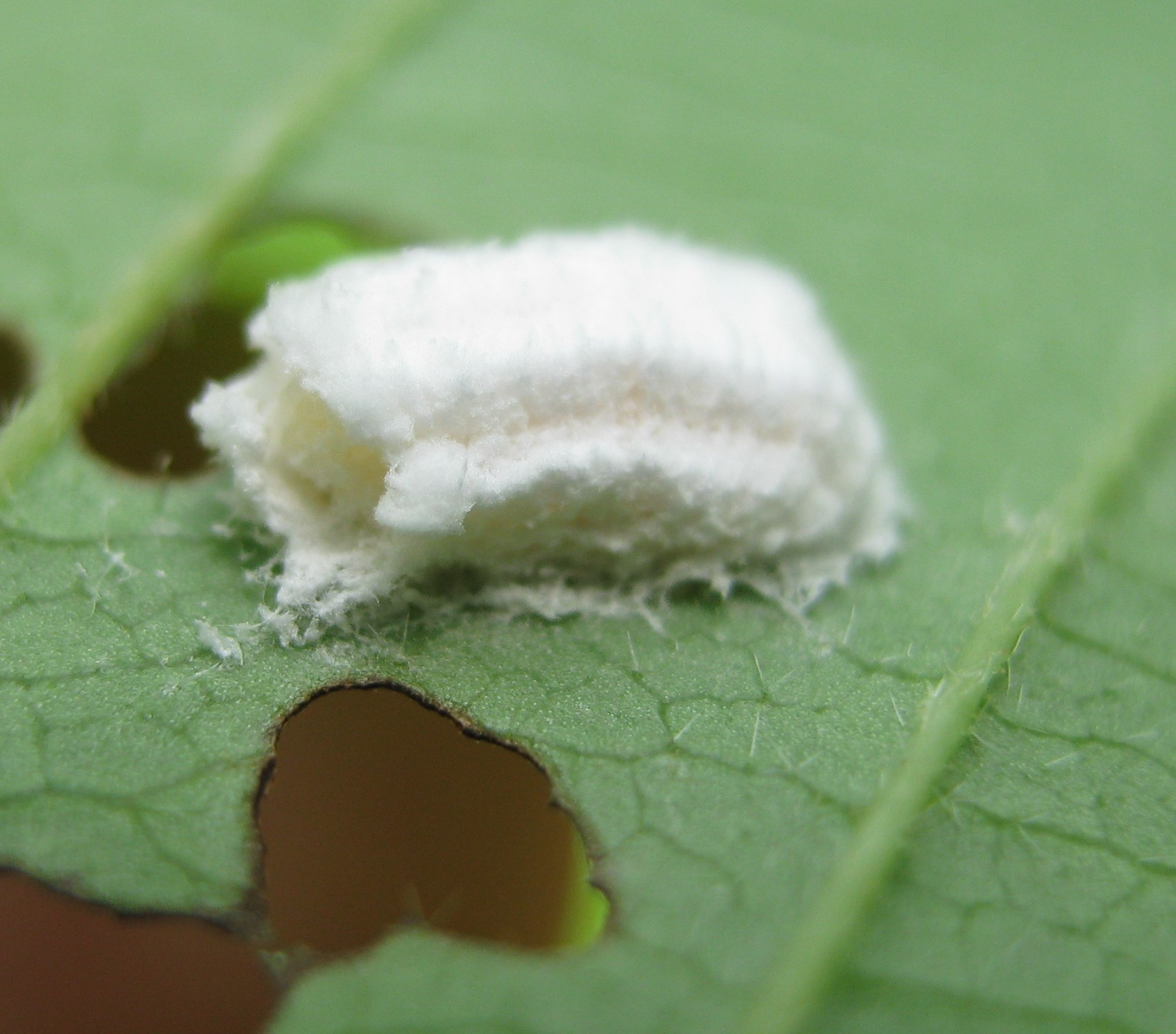 Egg case of the apple mealybug, Phenacoccus aceris, on arrowwood. Size: 5-6 mm. Briar Bush Nature Center, Montgomery County, Pennsylvania, USA.